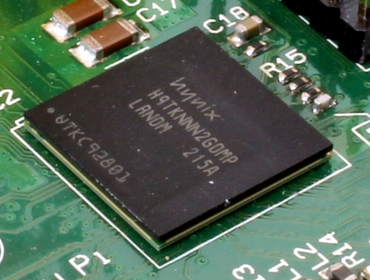 Closeup of the BCM2835 system on a chip (SoC), which includes an ARM1176JZF-S 700 MHz processor, used on the Raspberry Pi PCB